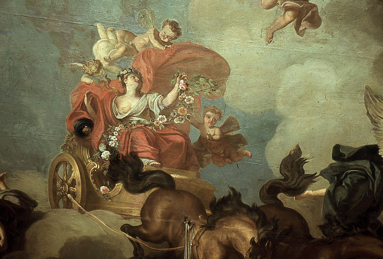 t